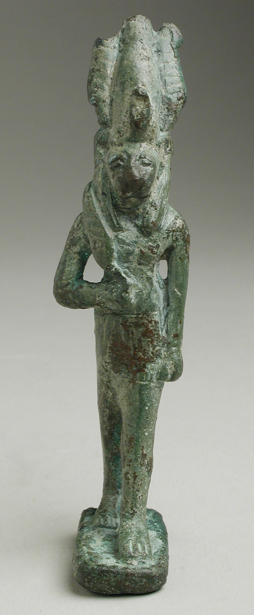 Egypt, Late Period - Ptolemaic Period (664 - 30 BCE) Sculpture Bronze Gift of Carl W. Thomas (M.80.203.107) Egyptian Art